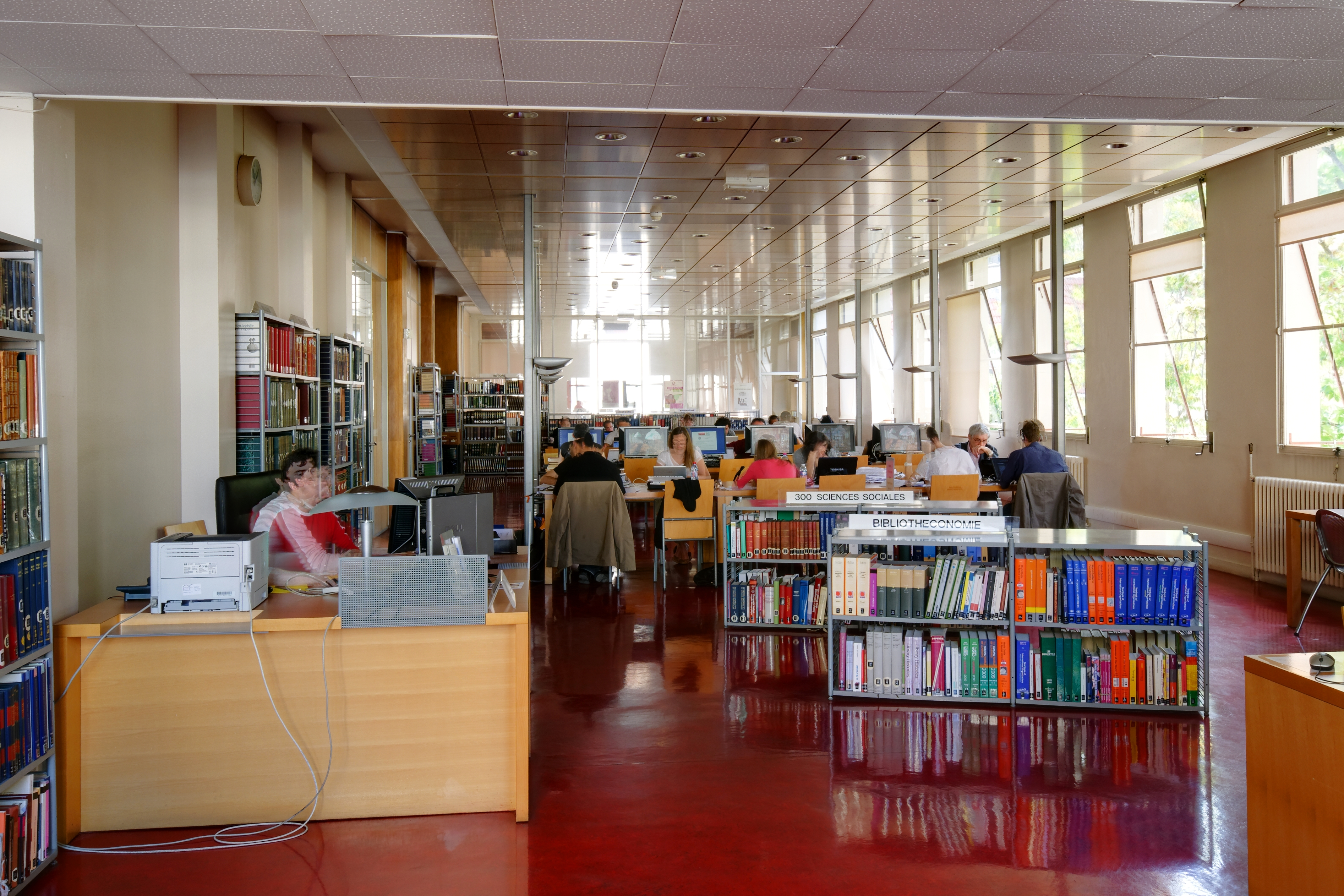 Secondary reading room of the Bibliothèque Sainte-Geneviève, Paris.